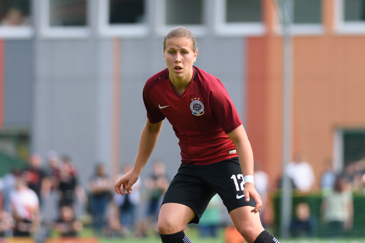 Eliška Sonntagová the 2019 Czech Cup Final